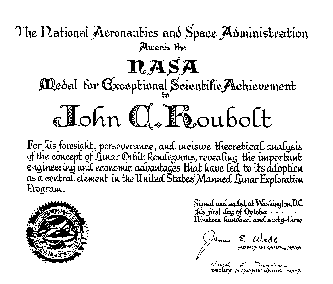 LOR Certificate presented to John Houbolt by NASA